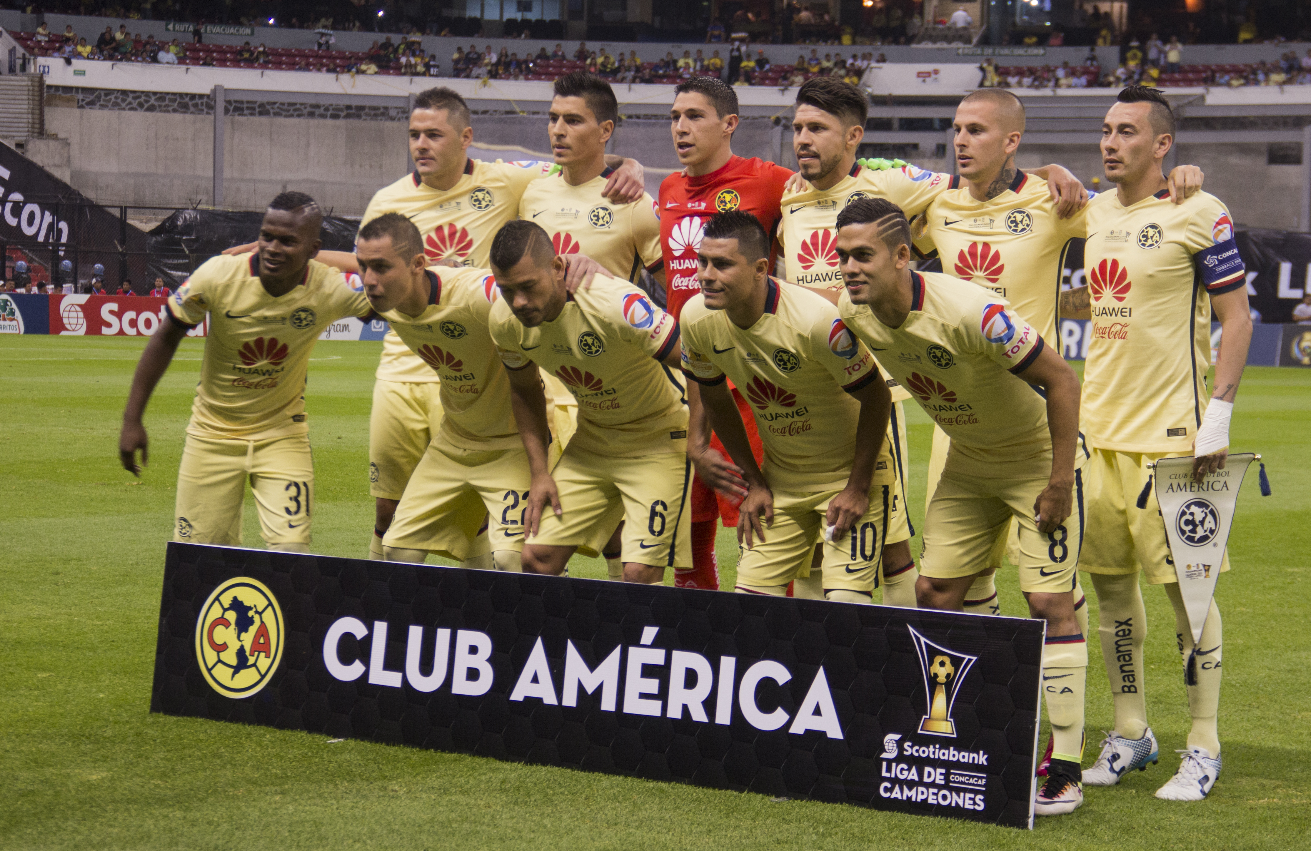 América